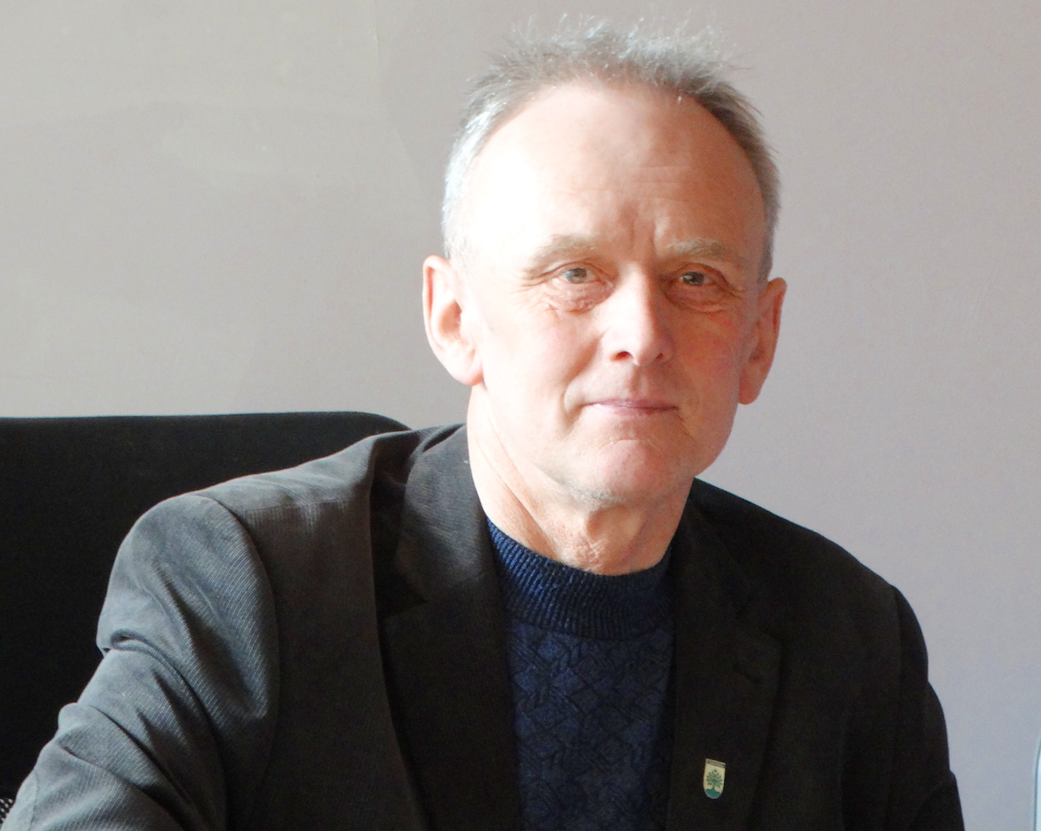 Faustas Maiženis, elder in Žadeikiai eldership, Šilalė District, Lithuania